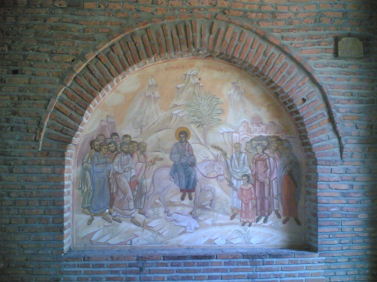 Plumbuita Monastery from Bucharest (mural painting in the entry passage).